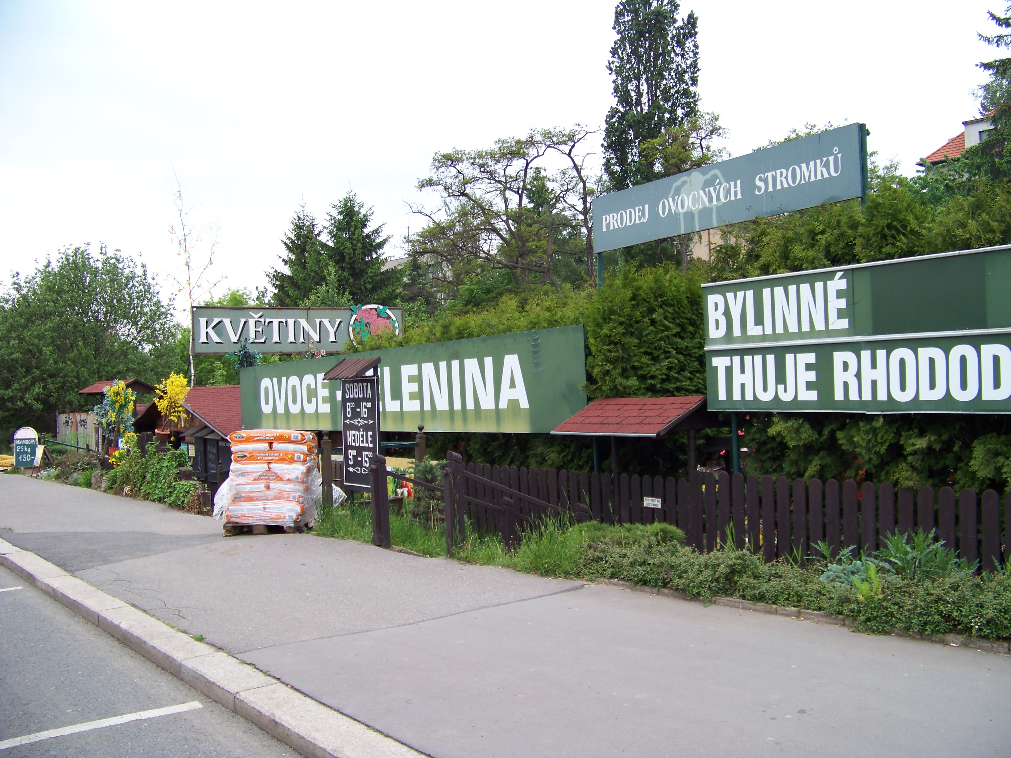 Hostivař, Prague, the Czech Republic. Švehlova street, a gardening shop.